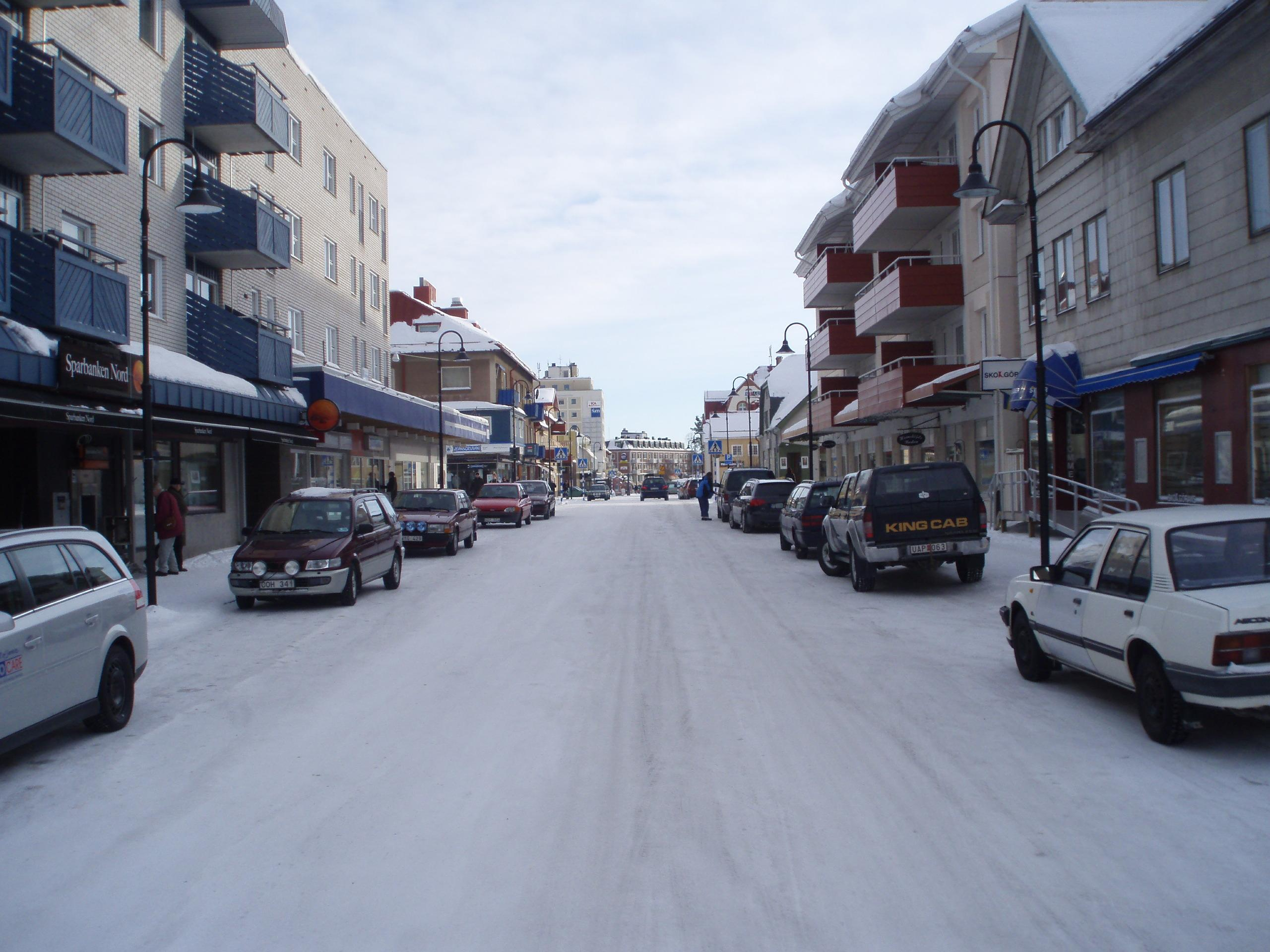 A street in Gällivare, Sweden